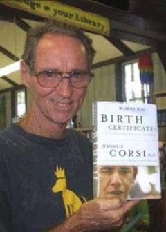 George Peabody, publisher of the Molokai Advertiser-News